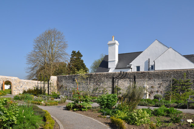 The Physic Garden - Cowbridge